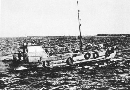 ORP Korsarz (Polish liaison craft)